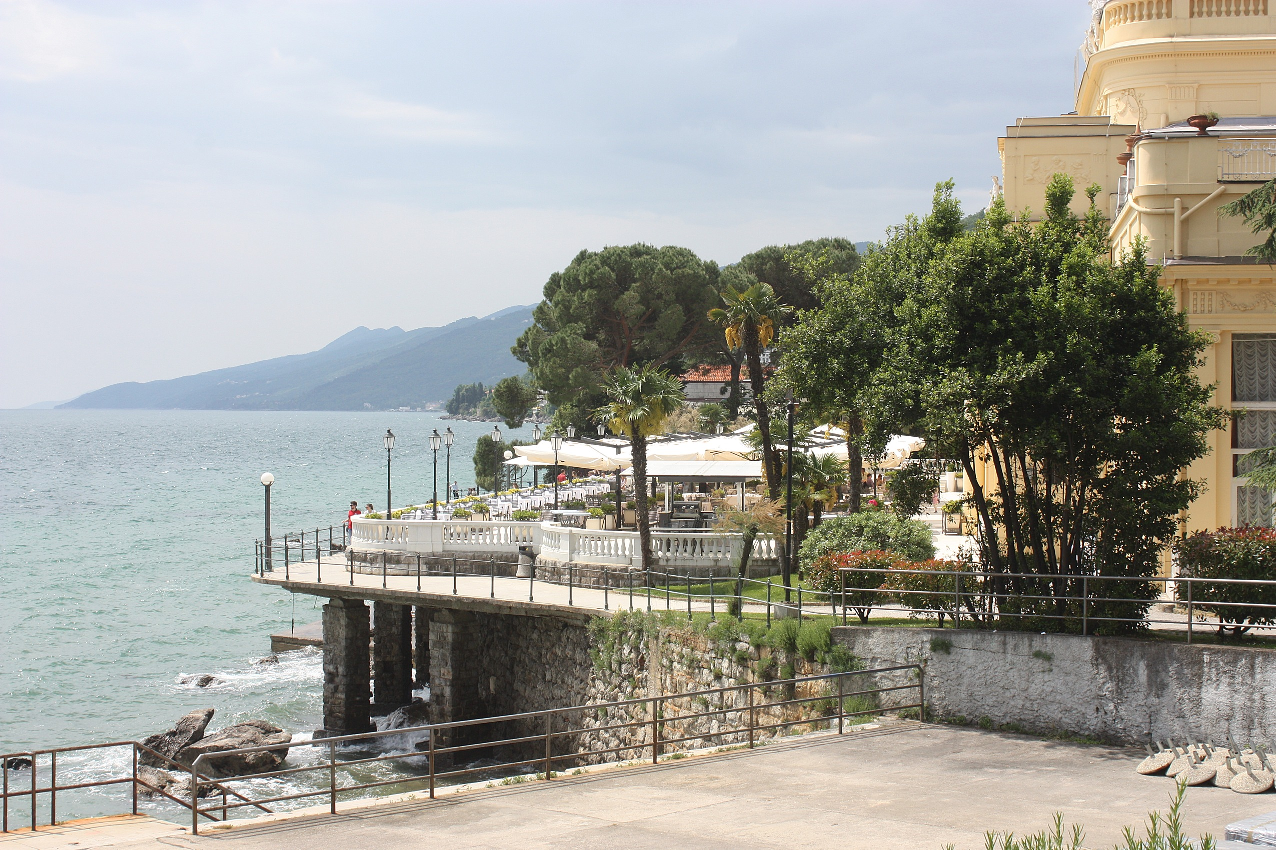 Opatija, at the hotel Kvarner